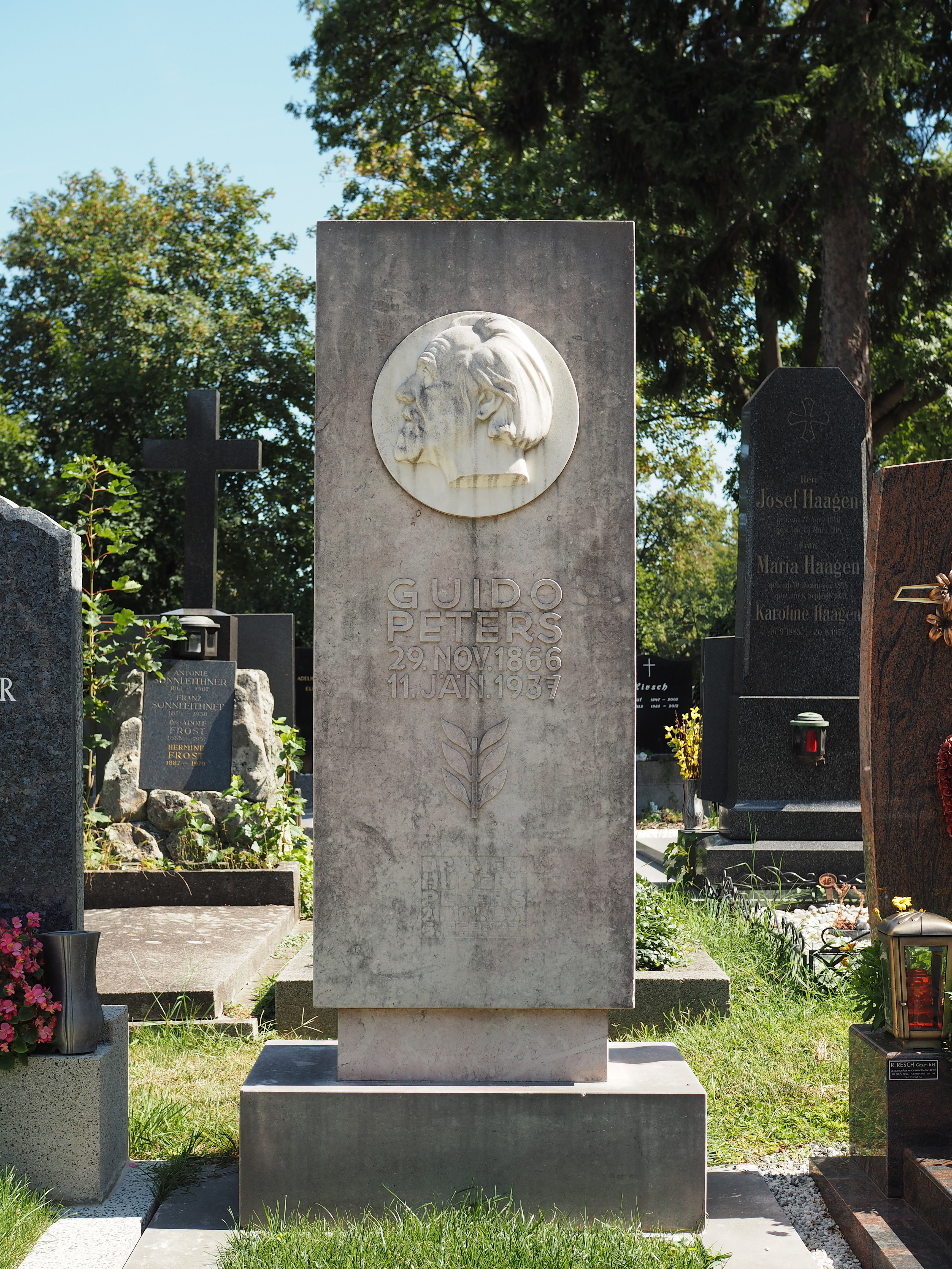 Grave of the composer and pianist Guido Peters (1866–1937) at the Vienna Central Cemetery (30E/3/21)